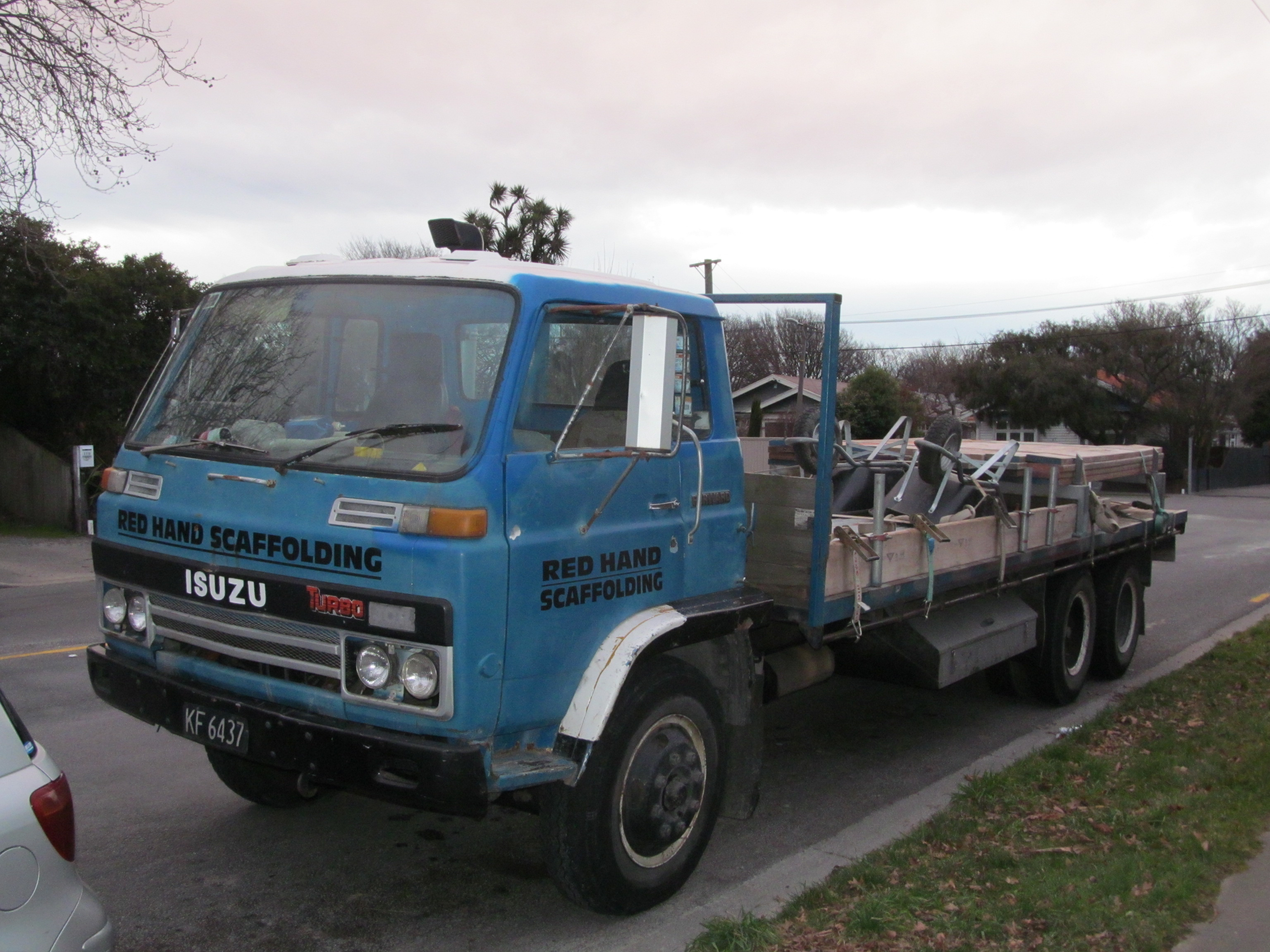 A very old truck to still be in use, particularly in the city as it is much more common to see trucks this age and older still working in rural NZ. It must have looked pretty modern in 1982, and 33 years on it now has over 600,000 kilometres on the clock!